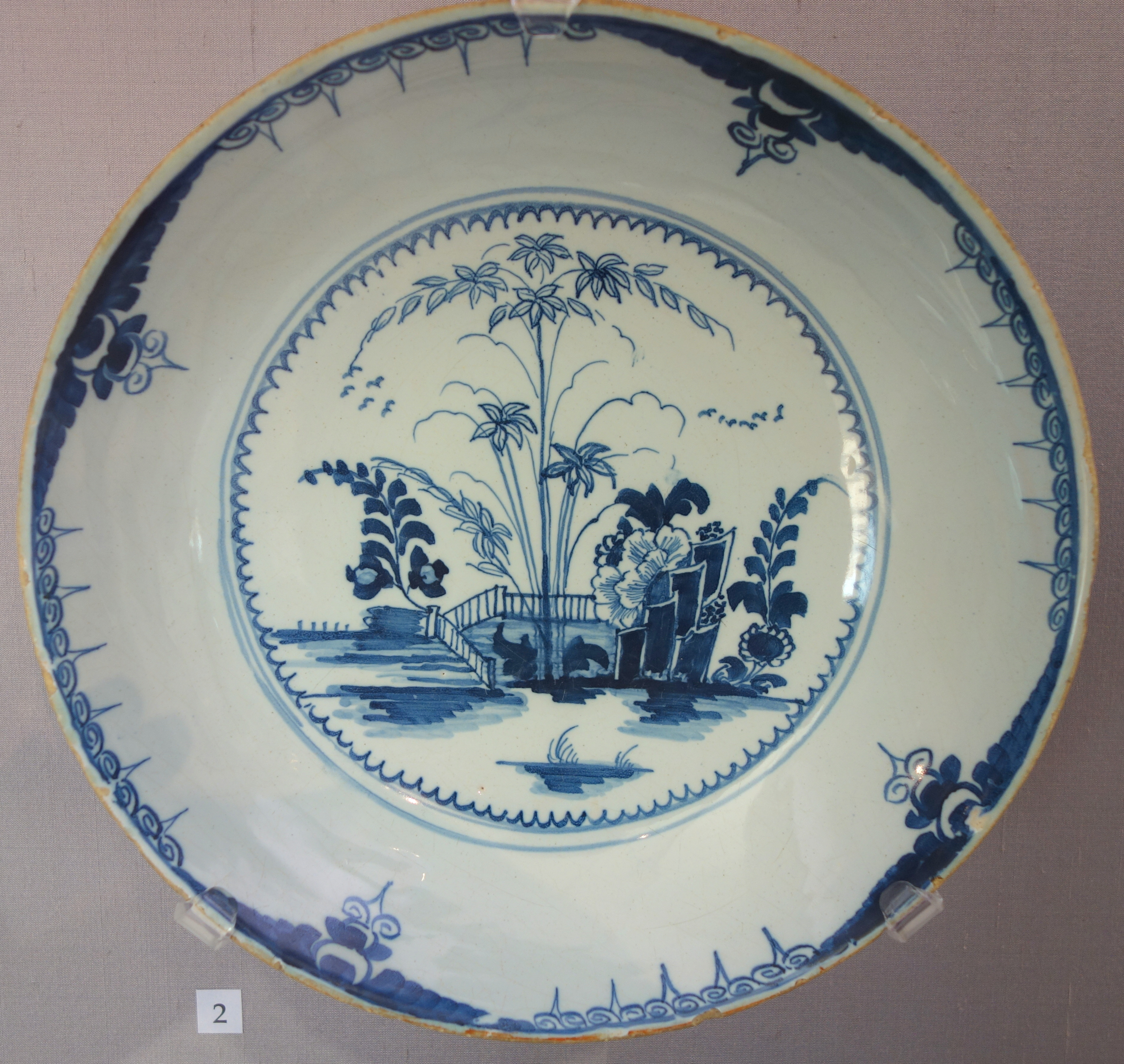 Exhibit in the California Palace of the Legion of Honor, San Francisco, California, USA. This work is old enough so that it is in the public domain.